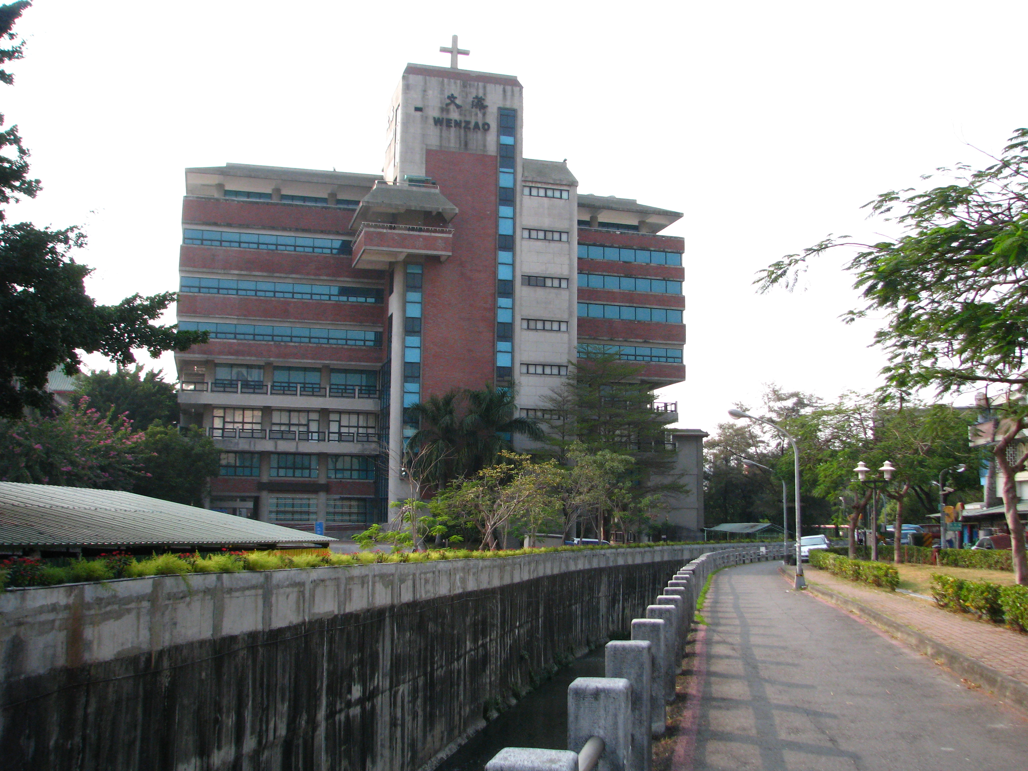 A old place name in Sanmin District, Kaohsiung, Taiwan.